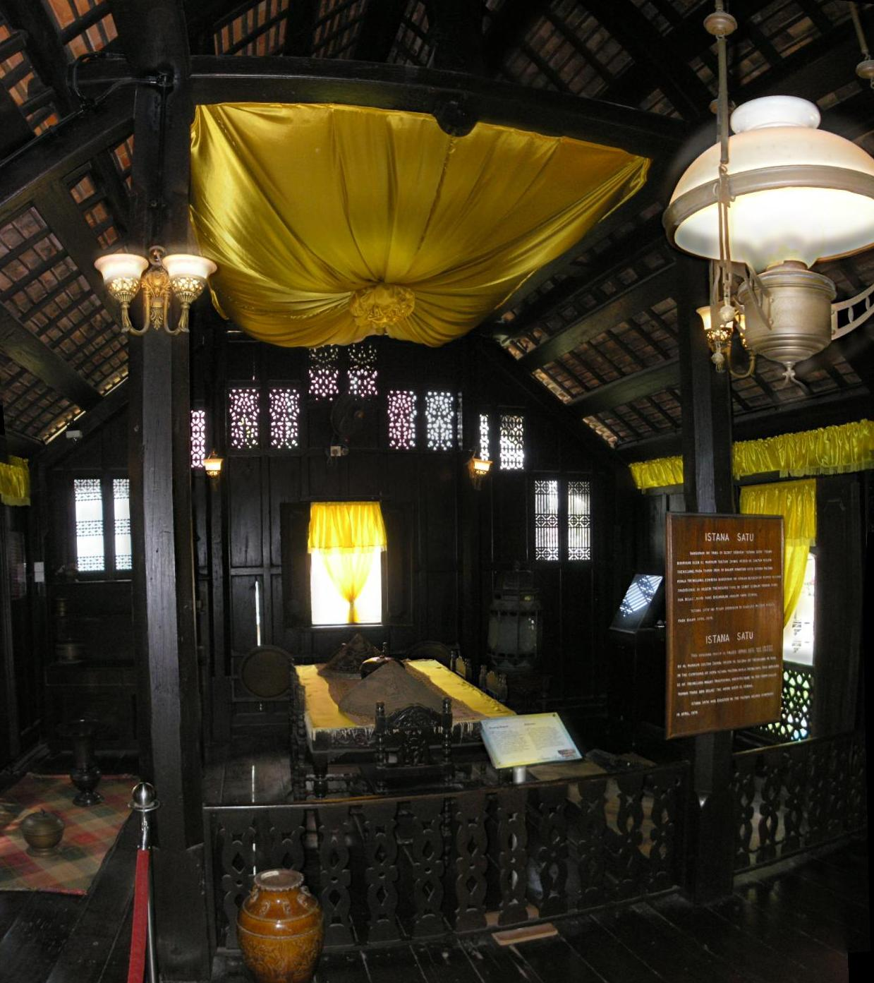 The guest hall of the Istana Satu (First Palace) is furnished with a cupboard that is made of carved wood with gold inlaid and complete with a mirror. The cupboard is used to store small decorative items. A hanging lamp is positioned from ceiling. A brass foot tray with legs is placed in the hall of visitors. Spread out is a mat made out of mengkuang leaves, a Malay feature to honour guests. Adding to the royal ambience of the central hall are brass shields mounted on the left and right walls. The kitchen of the Istana Satu (First Palace) is made from wood carved with floral motifs. Arranged on the table are a food cover made of woven mengkuang leaves and brass tray symbolising the pride and identity of the Malay race, together with a glass lamp. The cupboard is where the kitchen utensils are stored. The decorative items are simple yet full of artistic and cultural meaning.